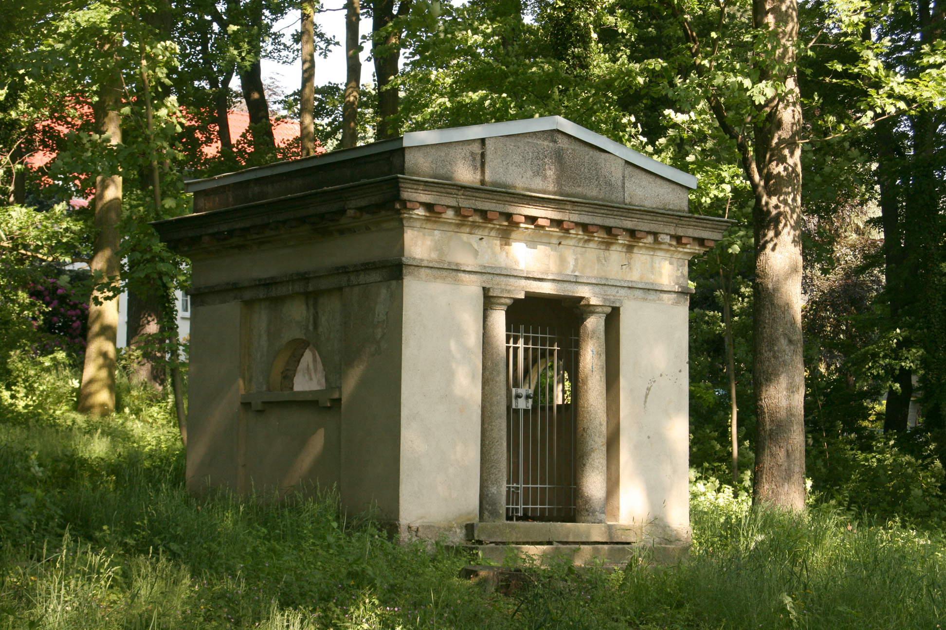 Mausoleum of Johann Gottfried Bönisch in Kamenz